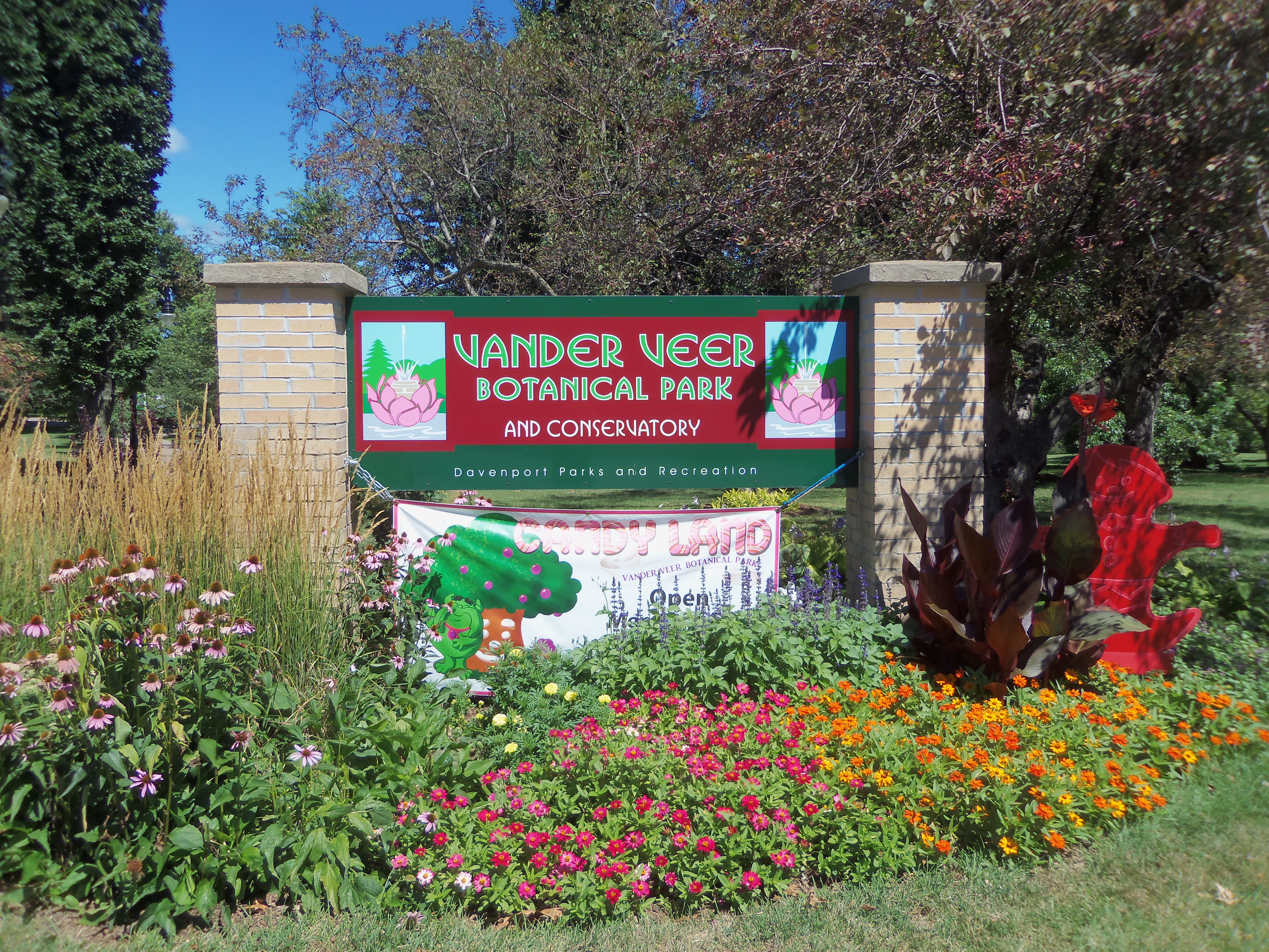 The sign at Vander Veer Botanical Park in Davenport, Iowa.